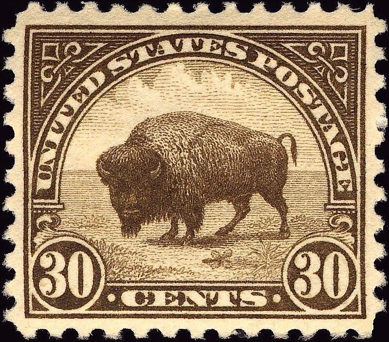 US Postage stamp, Buffalo, 1923 issue, 30c, brown